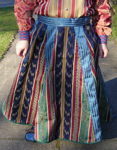 Circle Skirt Made by Mark Allyn, modeled by Mark Allyn on the sidewalk in front of his home